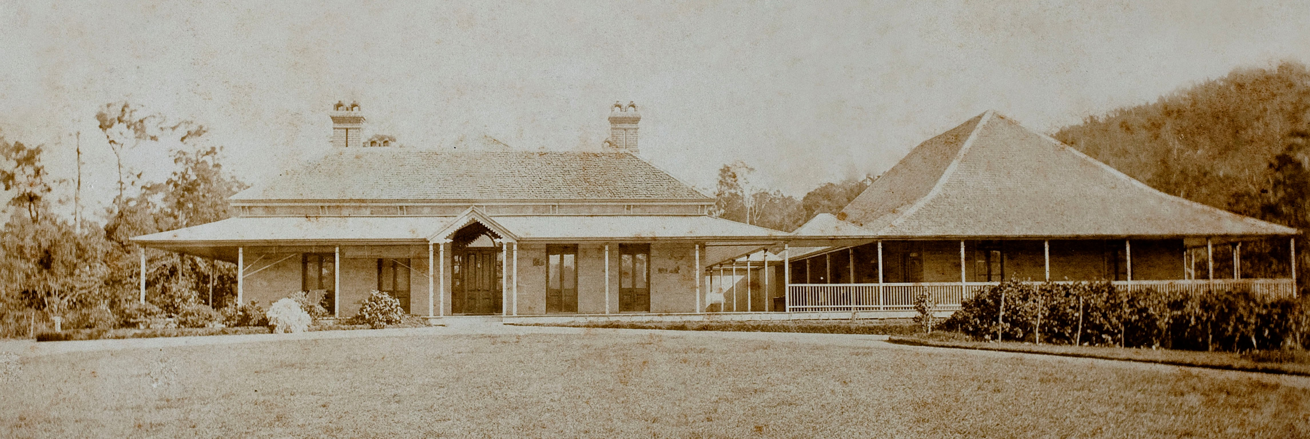 In 1864 Daniel Rowntree Somerset purchased the land and built his “U“ shaped house with granite external walls and shingle roof and it is he who named the Estate St John’s Wood. He resided there for four years, leaving after the death of his wife. The next occupier was George Rogers Harding, initially a young Barrister who became a prominent Judge. Harding then carried out major extensions to the residence, out-houses and yards. This is a photo of the Residence with the alterations in 1880s. The dwelling on the right is known as the "Cedar House", which was moved in 1926 to an adjacent site and shortly afterwards accidentally burnt down.